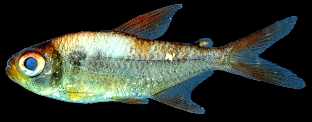 Moenkhausia browni GUY14-26 29mm